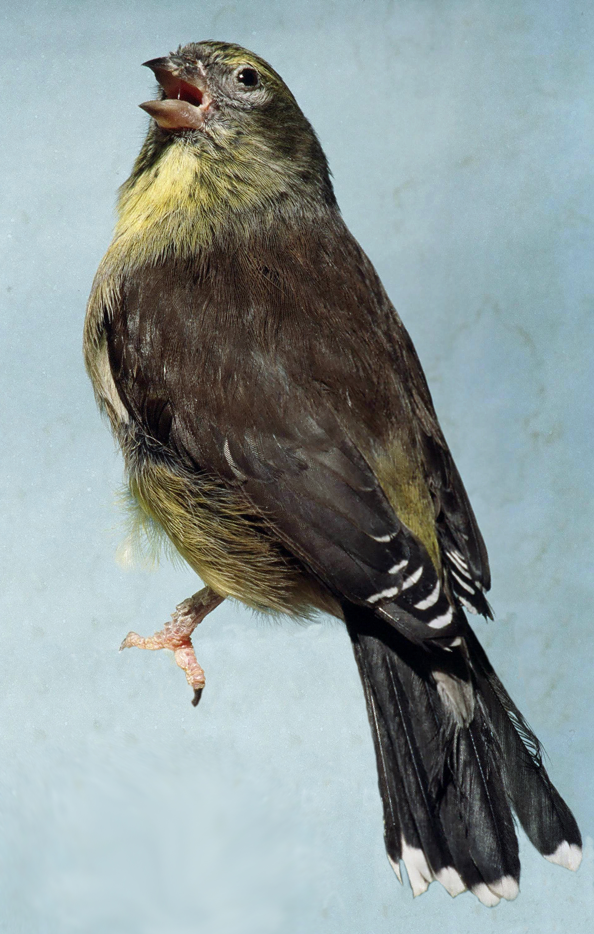 Cape Siskin Crithagra totta (syn. Serinus totta), male